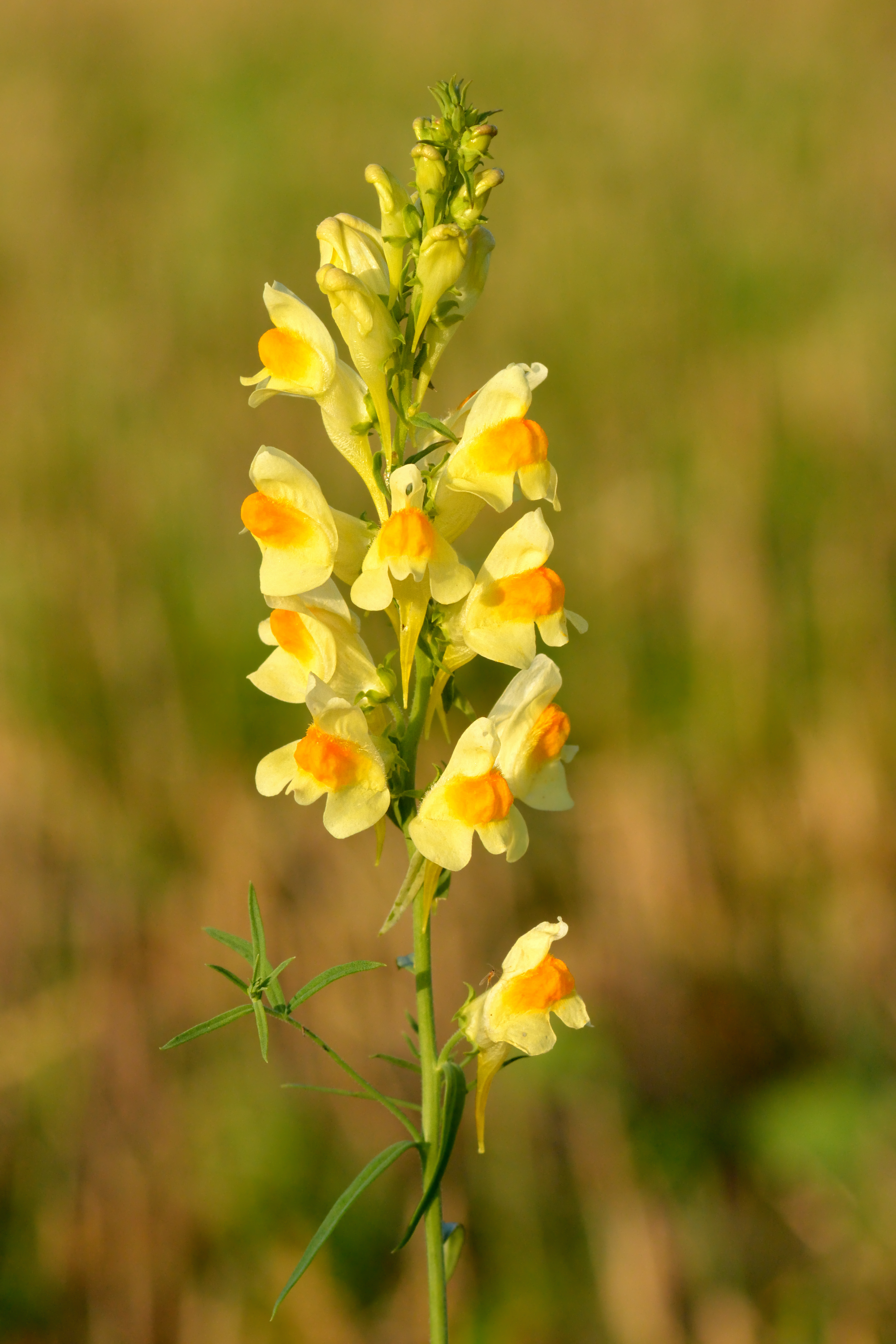 Linaria vulgaris - common toadflax in Valingu, Northwestern Estonia